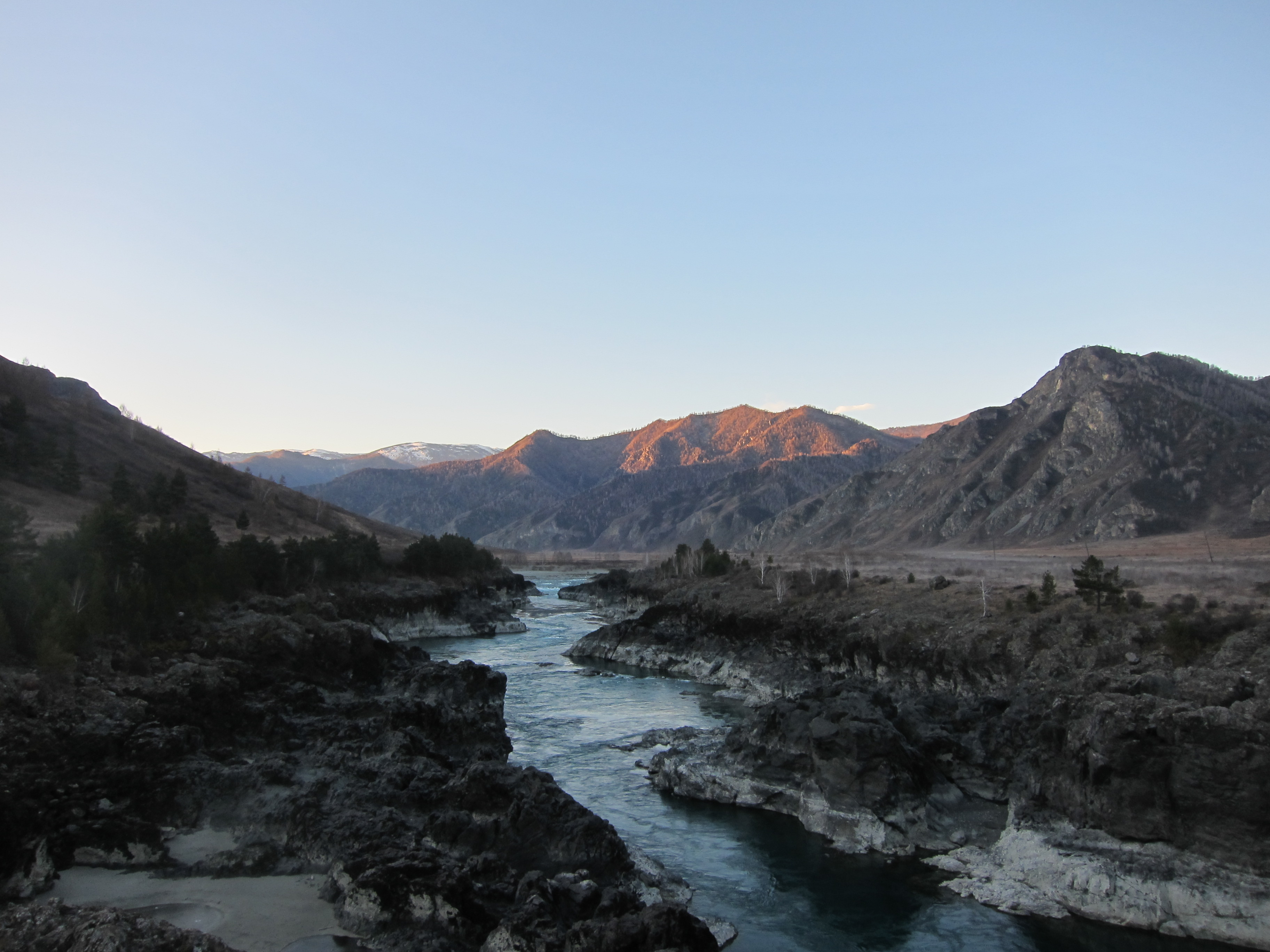 View on Katun River from Oroktoy Bridge